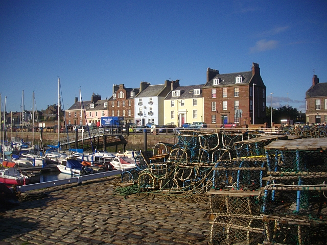 By the Inner Harbour, Arbroath Houses on Ladybridge Street overlooking the inner harbour.